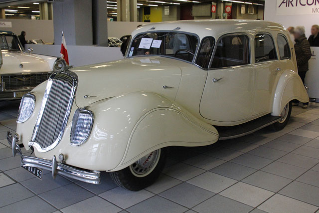 1939 Panhard & Levassor Dynamic 140 (Typ X81) limousine, chassis no 222538. Fully restored during 2010 and offered for sale at the Artcurial auction at the February 2011 Rétromobile show.